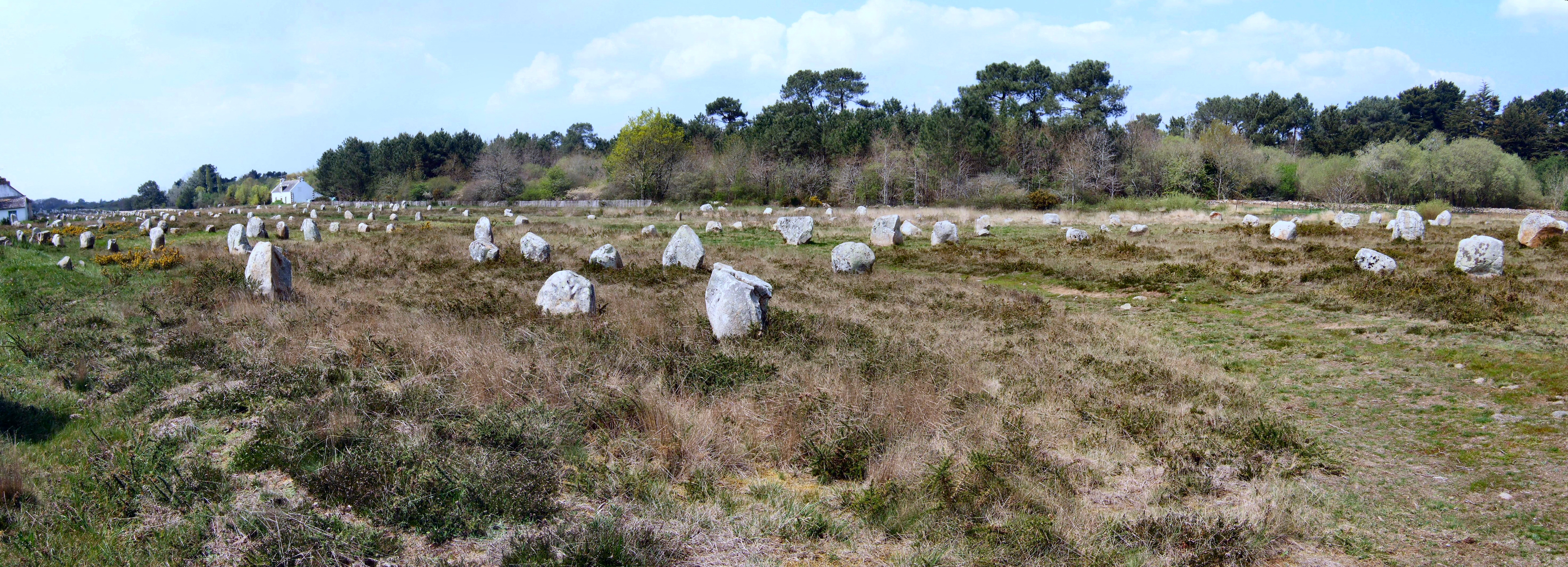 Panoramic photo of the Ménec alignments of stones near Carnac, France. Taken by me (several photos stitched together).